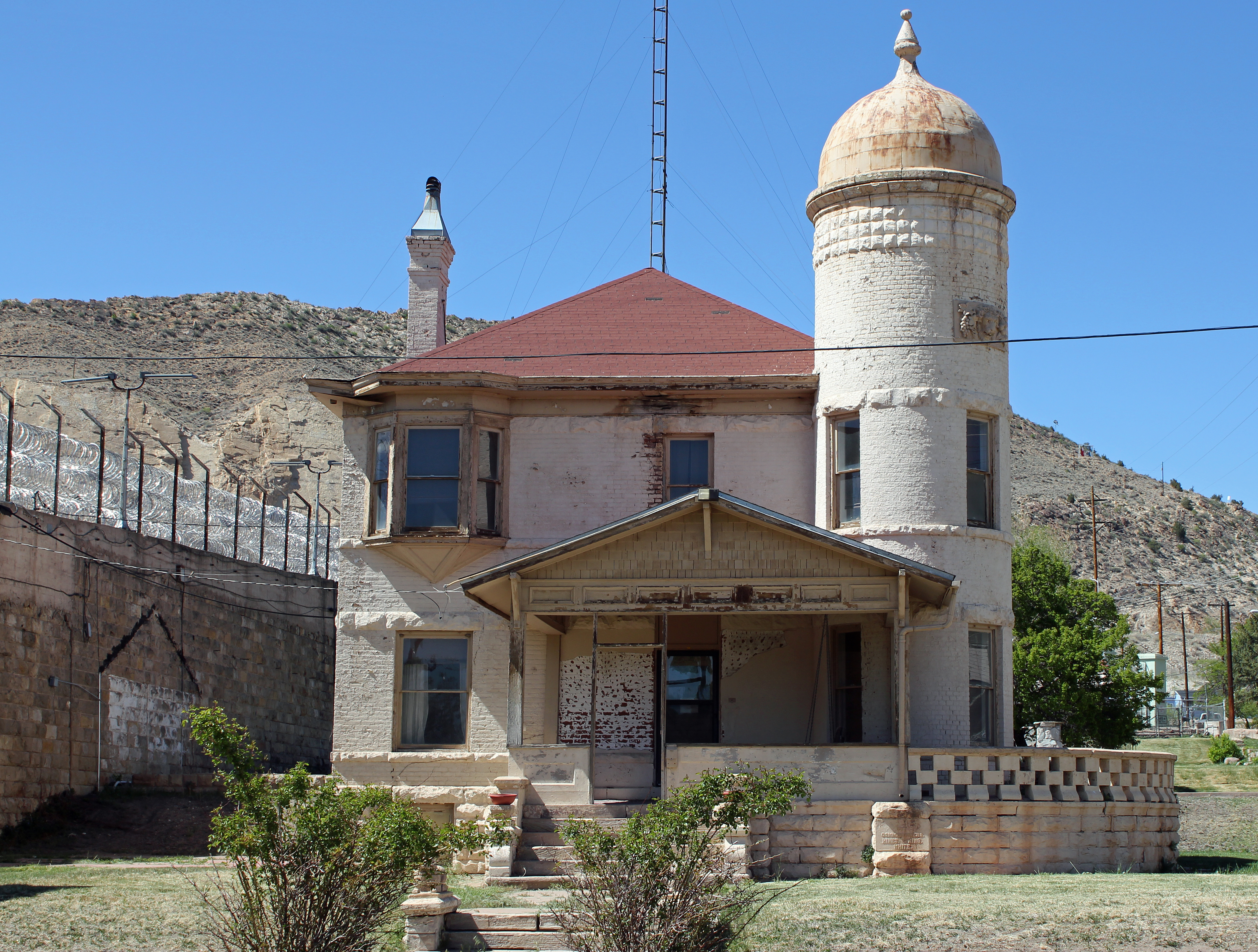 The Deputy Warden's House, located at 105 Main Street in Cañon City, Colorado. The house is listed on the National Register of Historic Places.